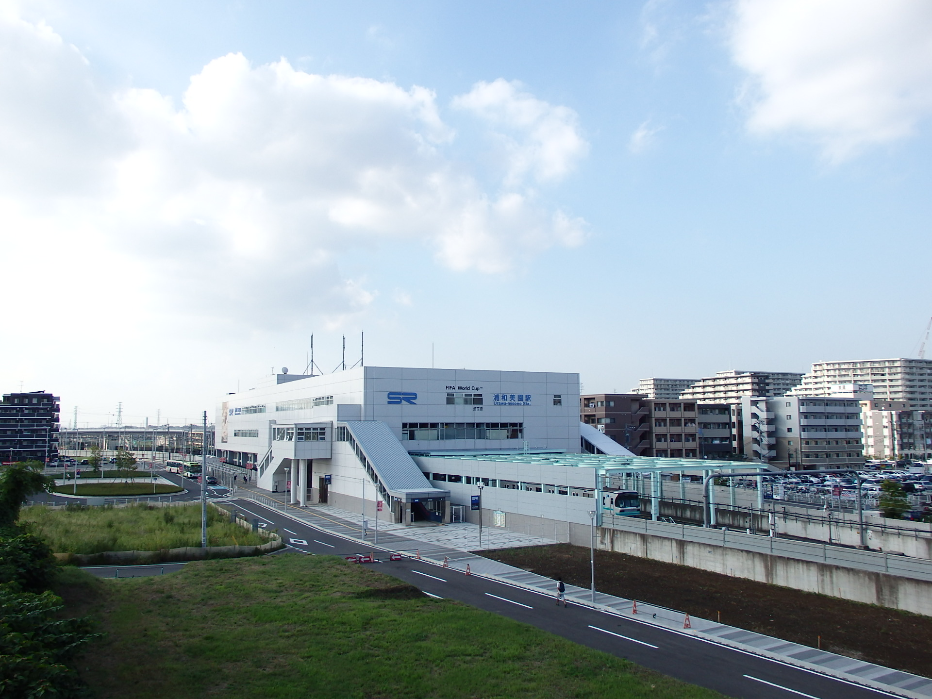 Urawa-Misono Station in Saitama Prefecture, Japan